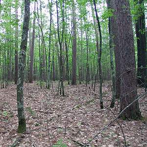 Finnerud Forest Scientific Area, designated because of its red pine forest